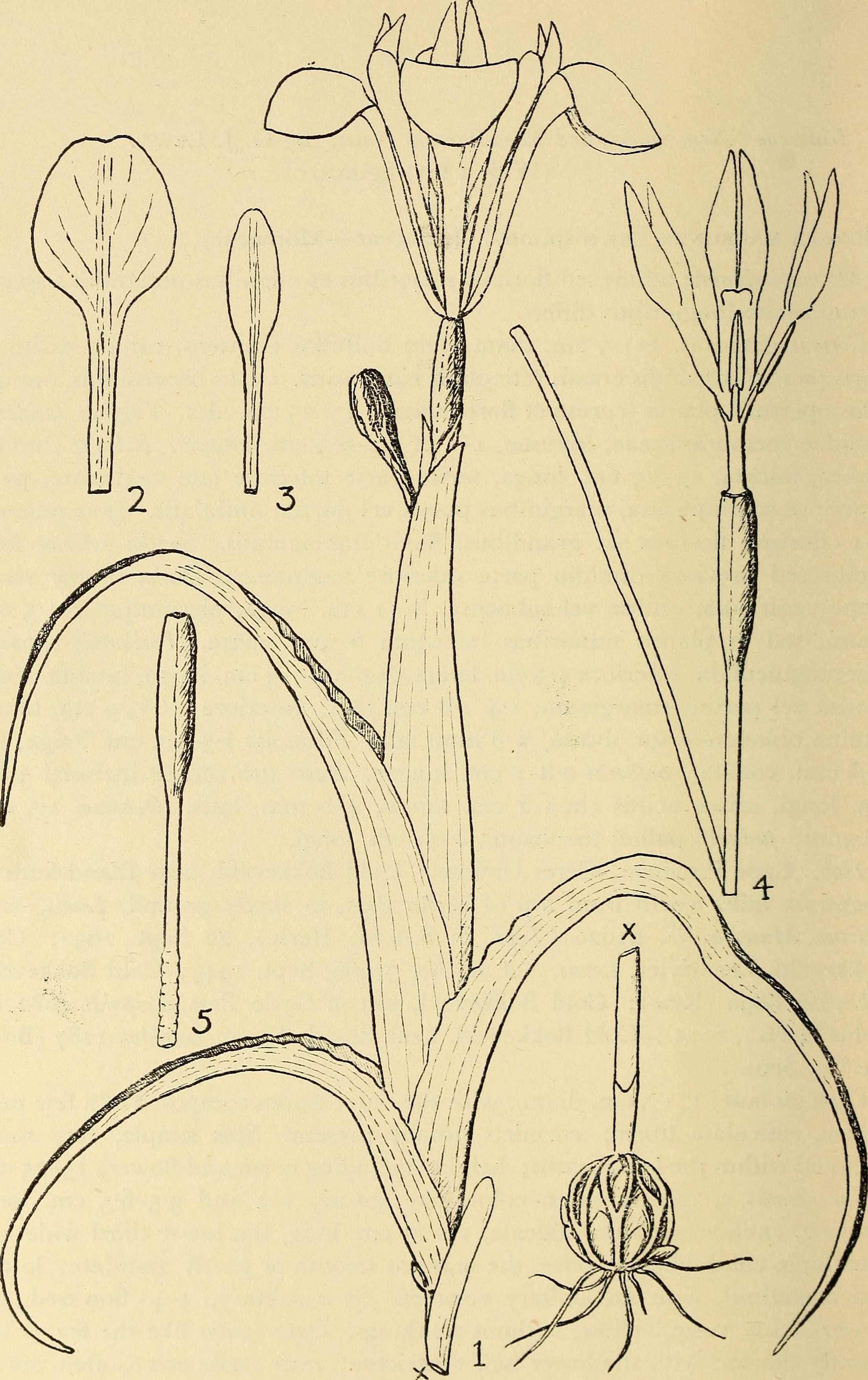 Title: Annals of the South African Museum = Annale van die Suid-Afrikaanse Museum Year: 1898 (1890s) Authors: South African Museum Subjects: Natural history Publisher: Cape Town : The Museum Text Appearing Before Image: n6 ANNALS OF THE SOUTH AFRICAN MUSEUM Text Appearing After Image: Figure i. Moraea macronyx Lewis, i. Plant in flower. 2. Outer perianth segment. 3. Inner perianth segment. 4. Flower with perianth segments removed, showing pedicel, ovary, stamens and style branches. 5. Ovary and part of pedicel of faded flower, showing slight contractions in the pedicel. All drawings natural size. Del. G. J. Lewis